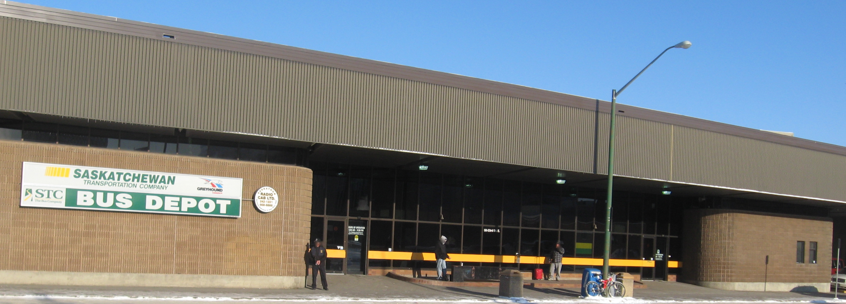 Saskatchewan Transportation Company depot, 23d Street, downtown Saskatoon